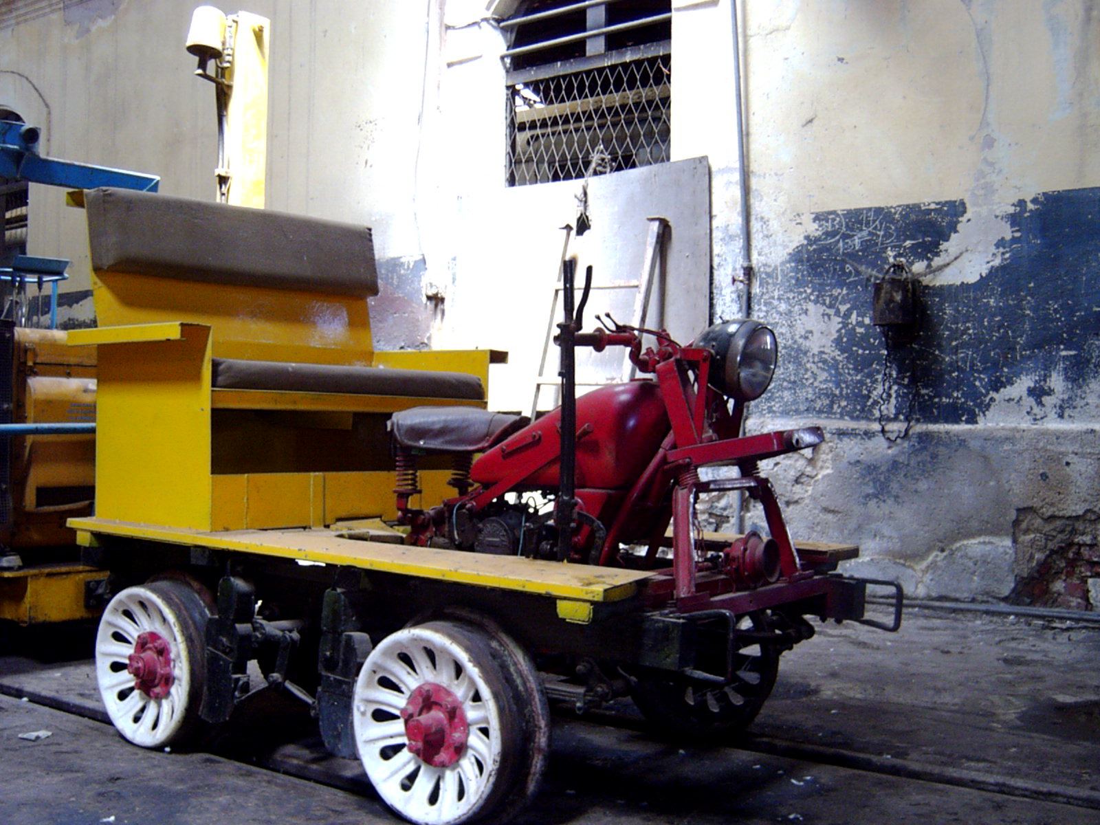 Railtrack maintenance vehicle of the Eritrean railway. Long time ago it must have been a motorcycle. Pic taken in Asmara